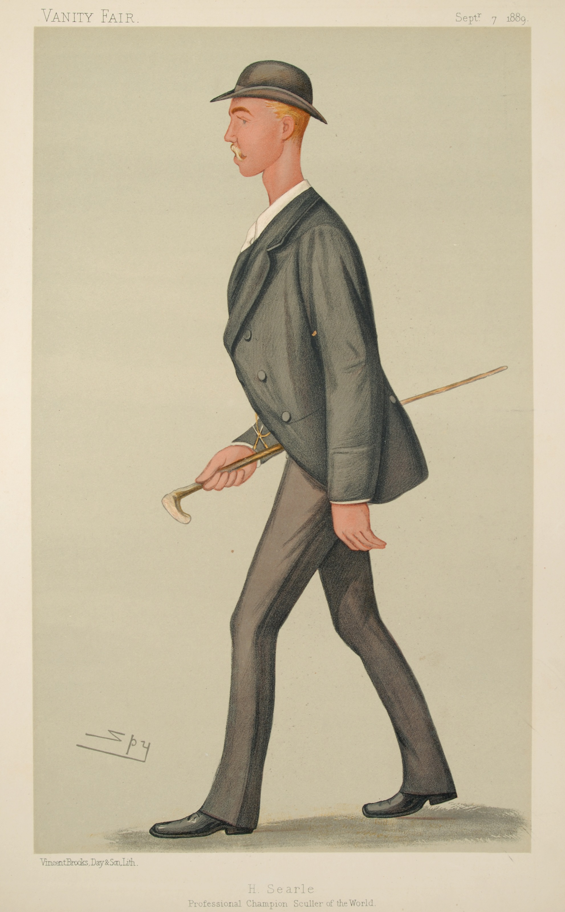 Men of the Day No.439: Caricature of Henry Searle. Caption reads: "Professional Champion Sculler of the World"